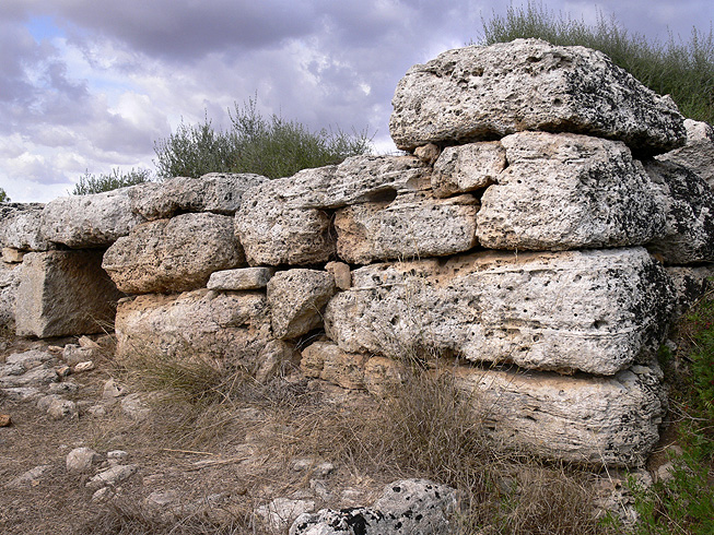 Talaiot by the side of the MA-12 road (Carretera de Artá a Puerto de Alcúdia) near the turning to Sa Colònia and Son Serra de Marina on the north coast of Mallorca.